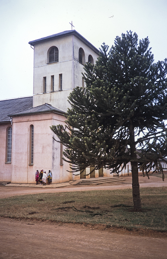 church in the monastery compound